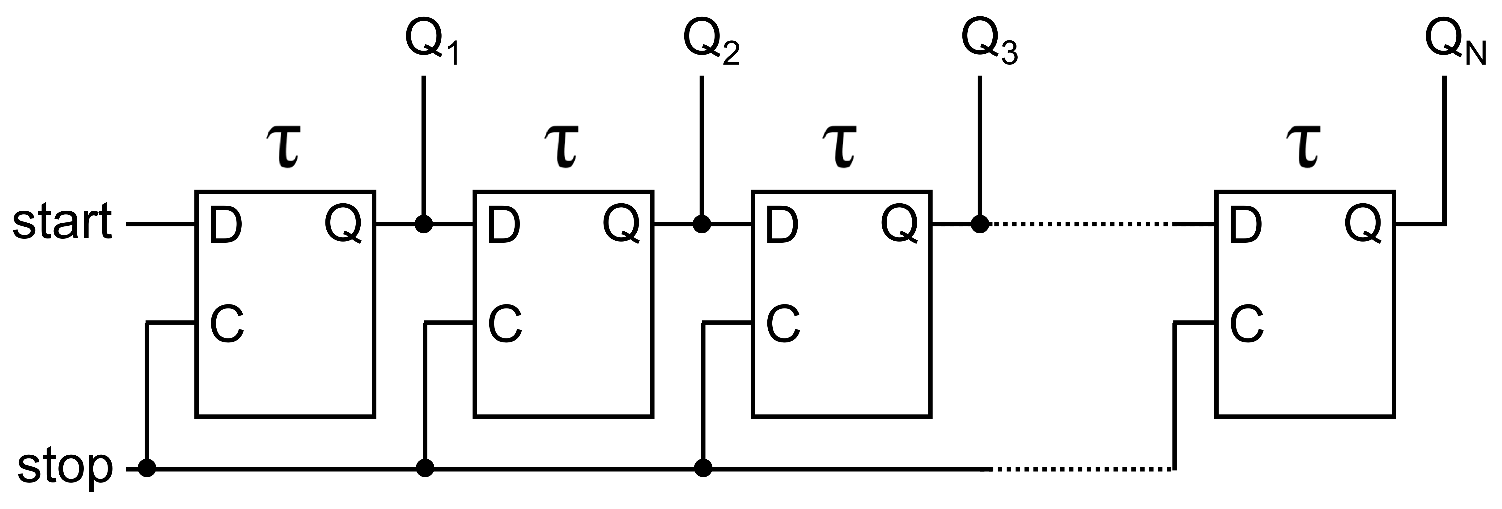 circuit diagram of a tapped delay line